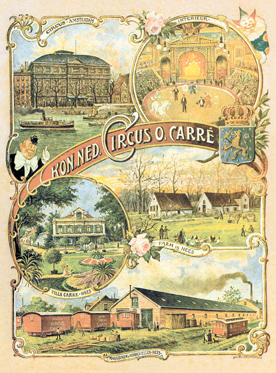 A replica with photos of the various parts of the Royal Dutch Circus O. Carre: Villa Carré Hees, Farm in Hees, Warehouse and Werkstellen Hees and the Circus in Amsterdam with interior that was built in 1887.